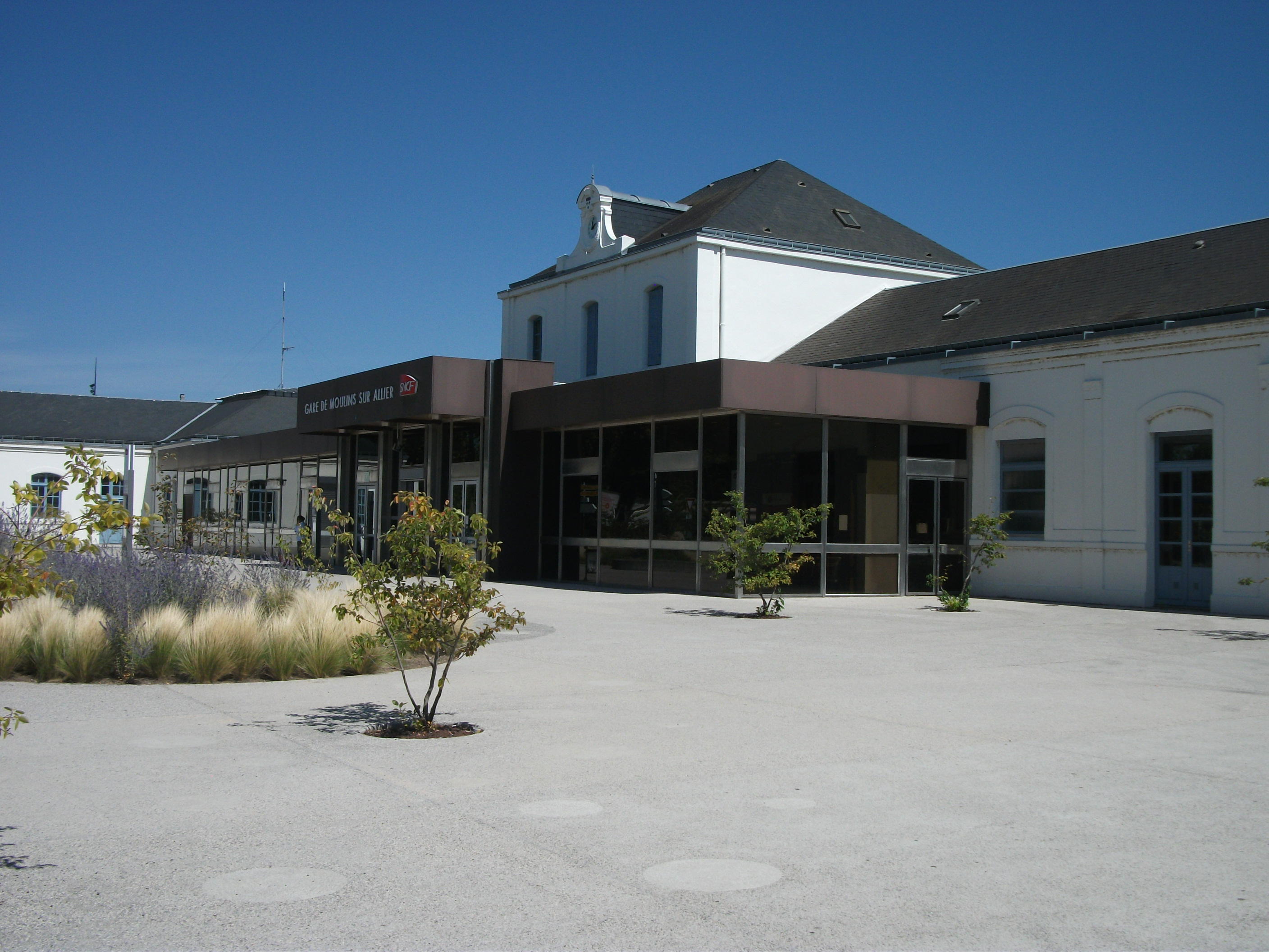 Passenger building of Moulins-sur-Allier railway station [8852]